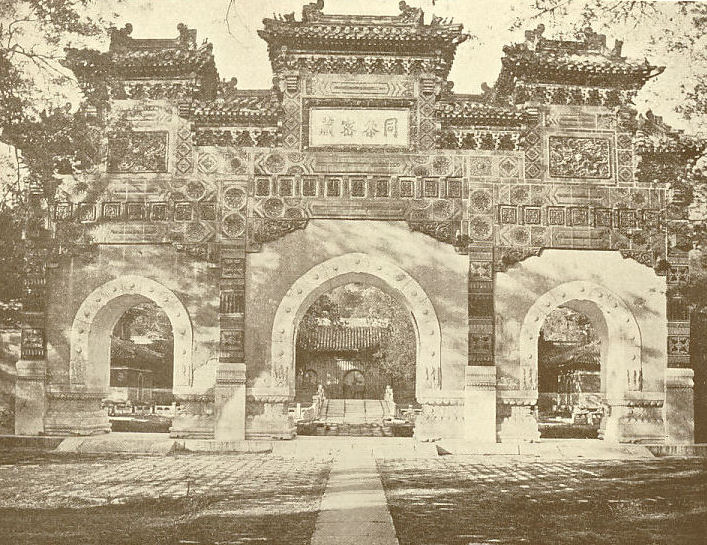 Pailou in old Peking (late 19th century)